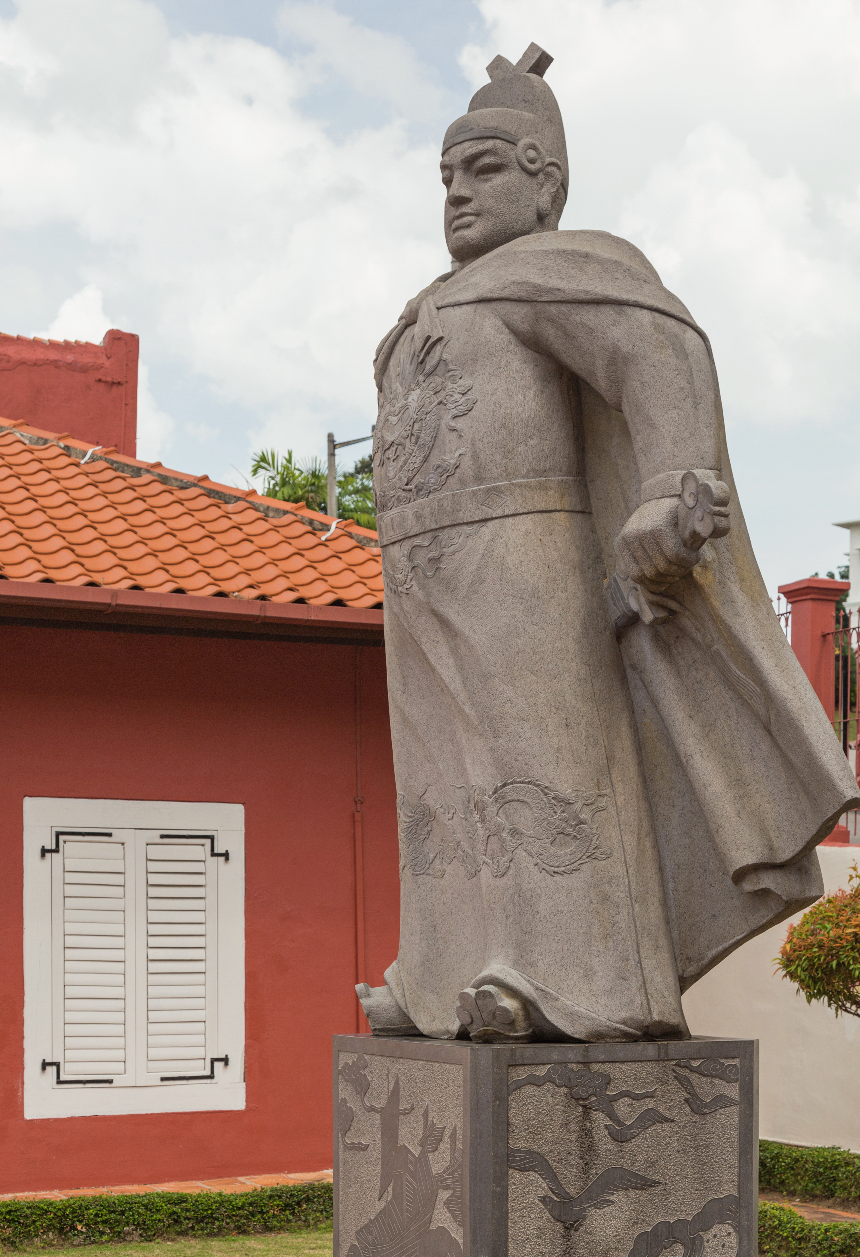 Stadthuys - monument of Admiral Zheng He. Malacca City, Malacca, Malaysia.